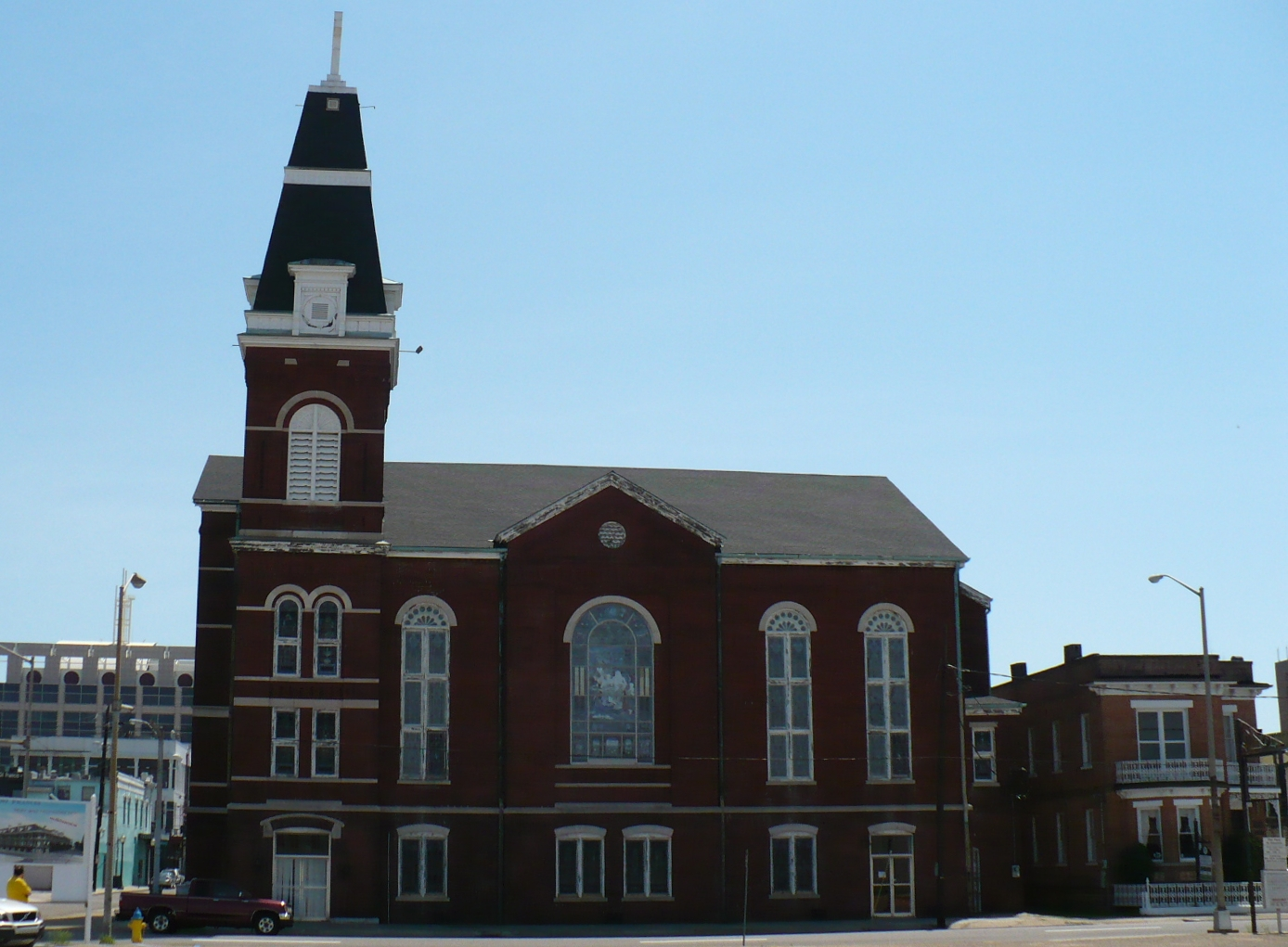 15 North Joachim Street (St. Francis Street United Methodist Church) within the Lower Dauphin Street Historic District in Mobile, Alabama. (c. 1895).